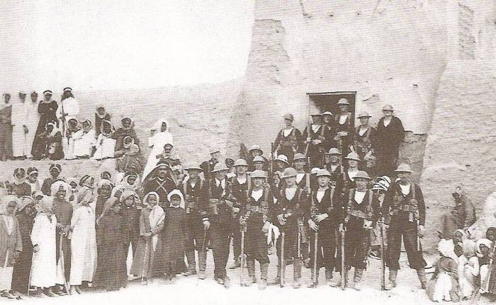 Uk_army_in_kuwait,1928.